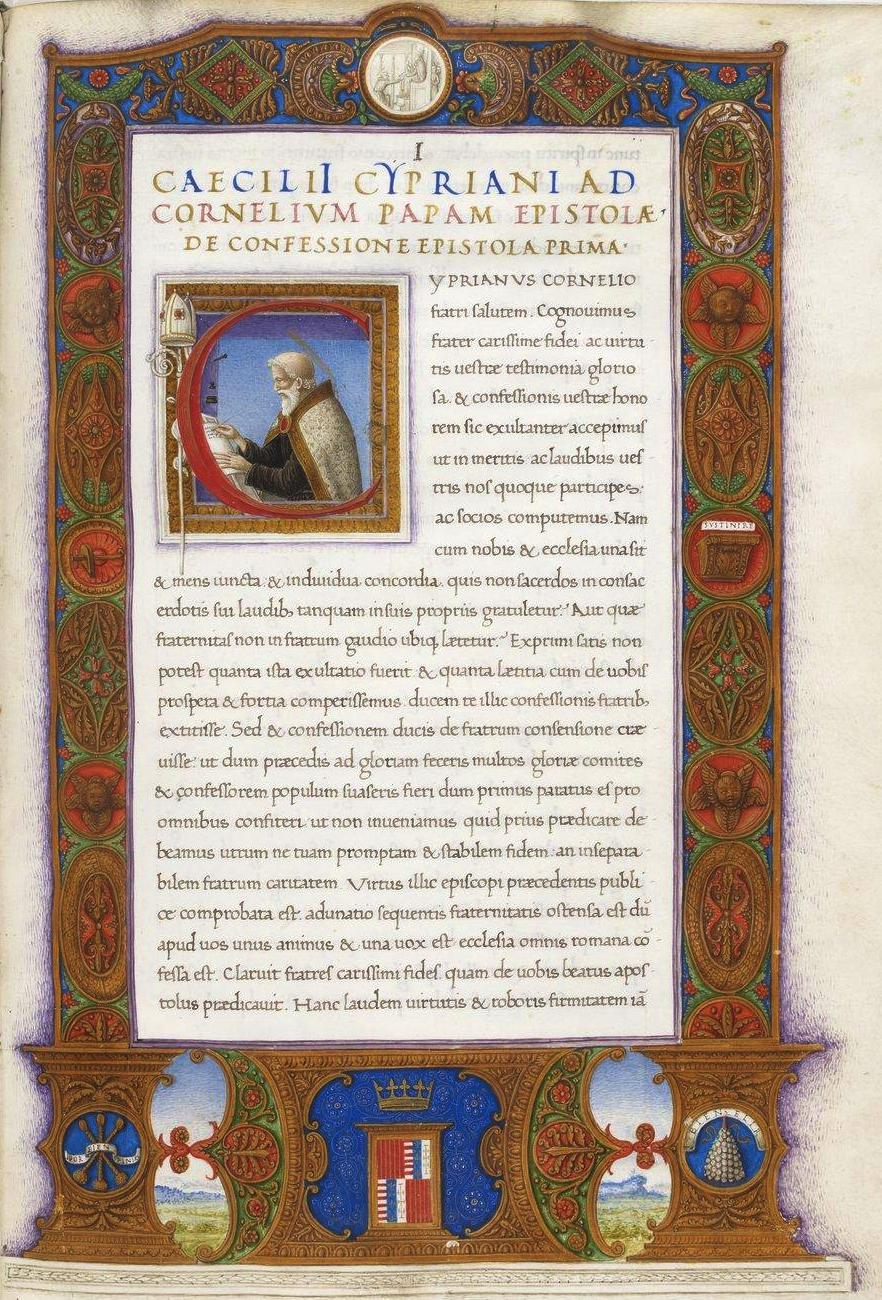 Illustration of a Catalanoaragonese manuscript of Saint Cyprian's Epistolae